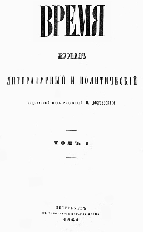 Vremya magazine, published by Mikhail Dostoyevsky. Volume 1. The title page of the first issue (January 1861).